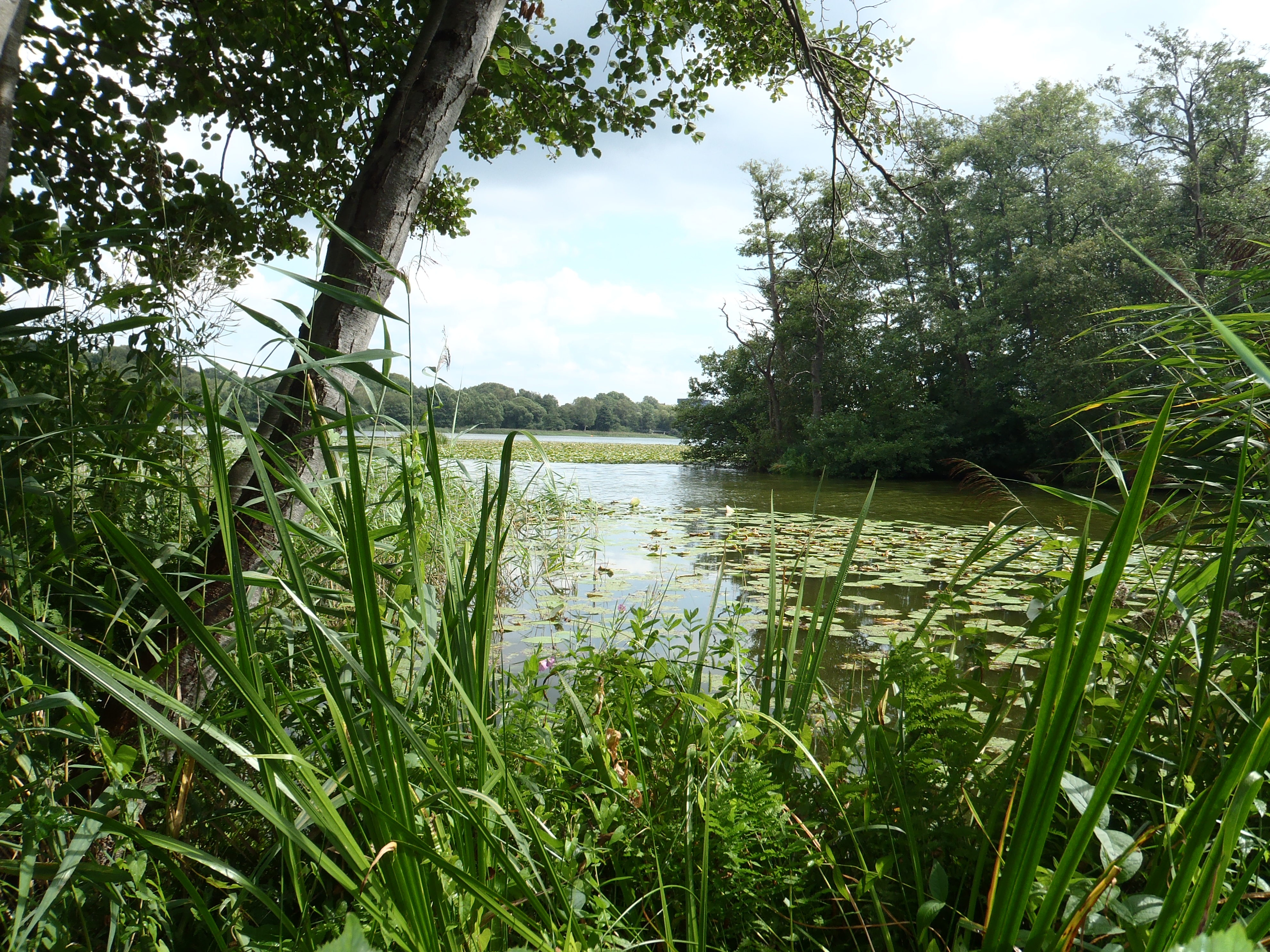 Lyngby Lake from Lyngby Bog, 2012-08-26.